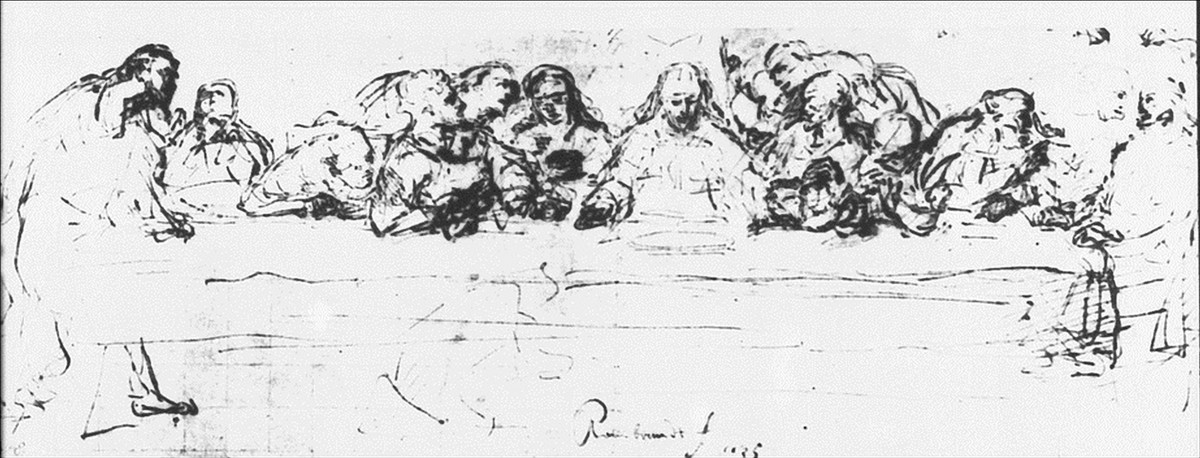 The Last Supper, after Leonardo da Vinci